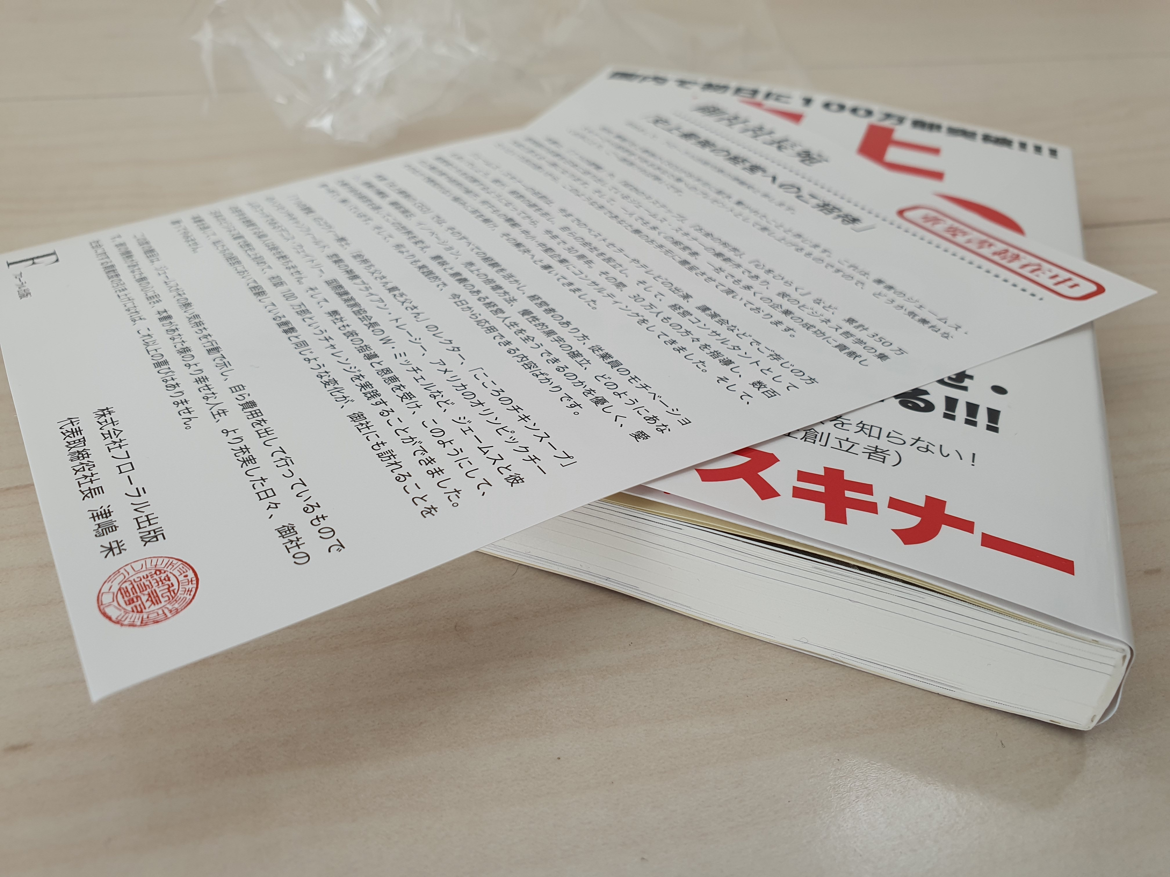 The included letter explains that the book is offered as a generous gesture by the publication company. Otherwise looking like a normal book, every few pages it urges readers to open a particular URL.